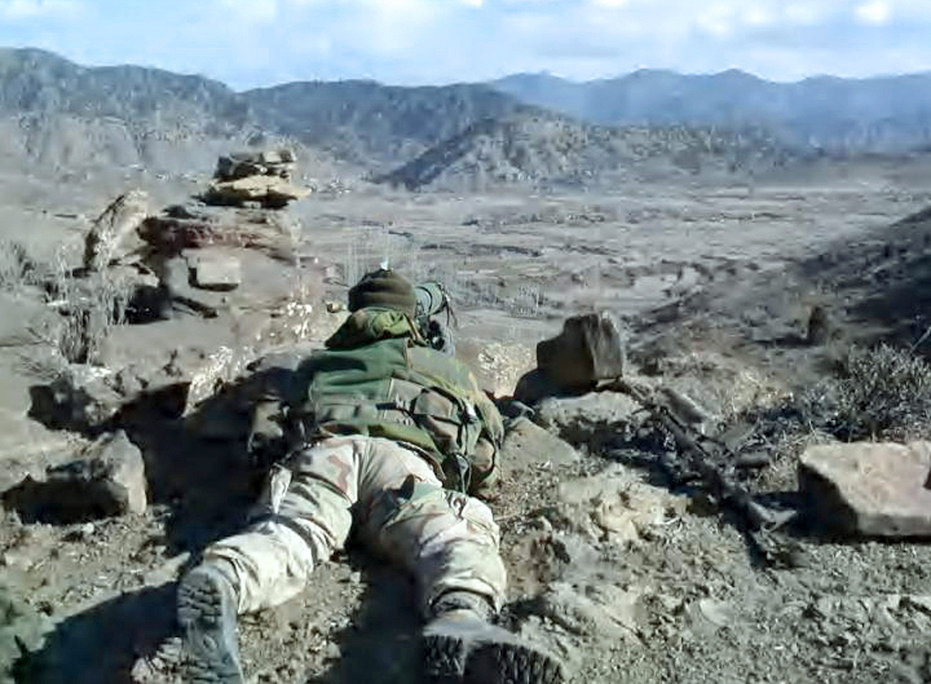 020212-N-0000X-001 \nKandahar, Afghanistan (February 12, 2002) - A Special Operations Force (SOF) commando from Task Force K-BAR conducts Special Reconnaissance (SR) on an undisclosed location in Afghanistan. Also known as the Combined Joint Special Operations Task Force-South (CJSOTF-South), TF K-BAR is primarily responsible for conducting SR and Direct Action missions in southern Afghanistan. U.S. and Coalition SOF personnel from TF K-BAR are conducting missions in Afghanistan in support of Operation Enduring Freedom. Credit photo to Official Task Force K-BAR photo. U.S. Navy photo. (RELEASED)\n